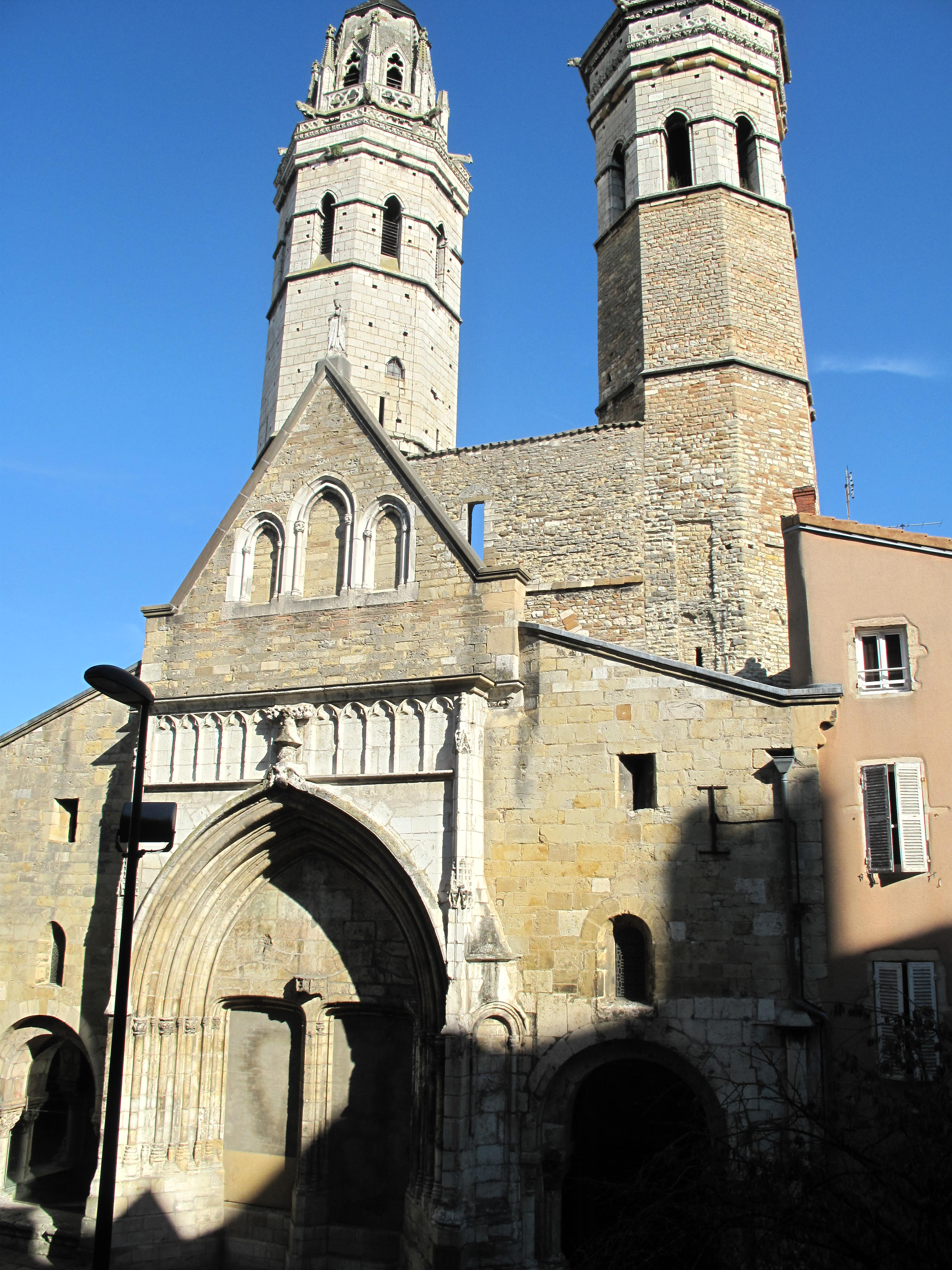 Back of the cathedral Vieux (=old) Saint-Vincent in Macon (Saône-et-Loire, France).